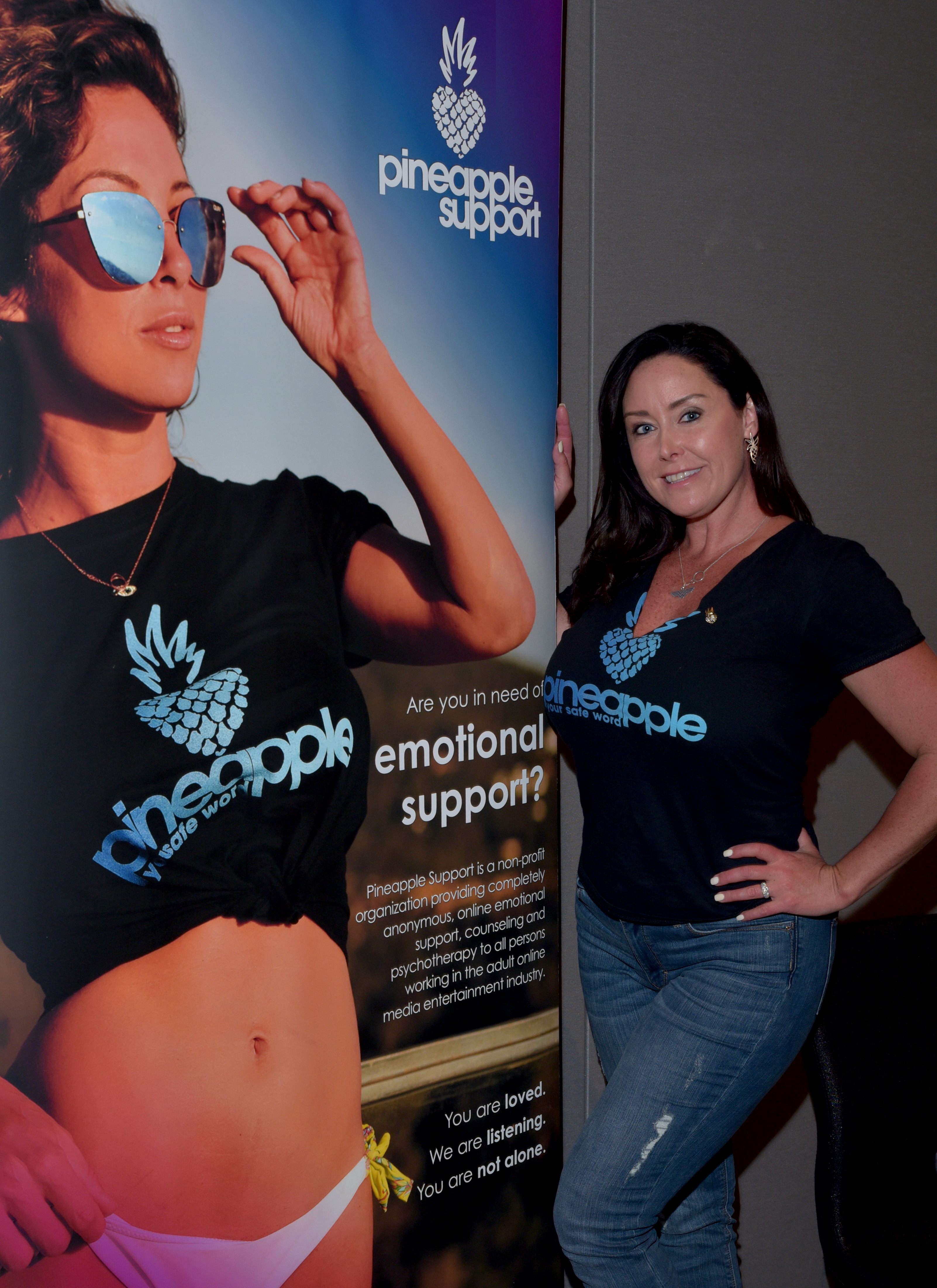 Pineapple Booth Exhibit at the YNOT Awards Show in Los Angeles, California on August 6, 2019 - Photo by Glenn Francis of